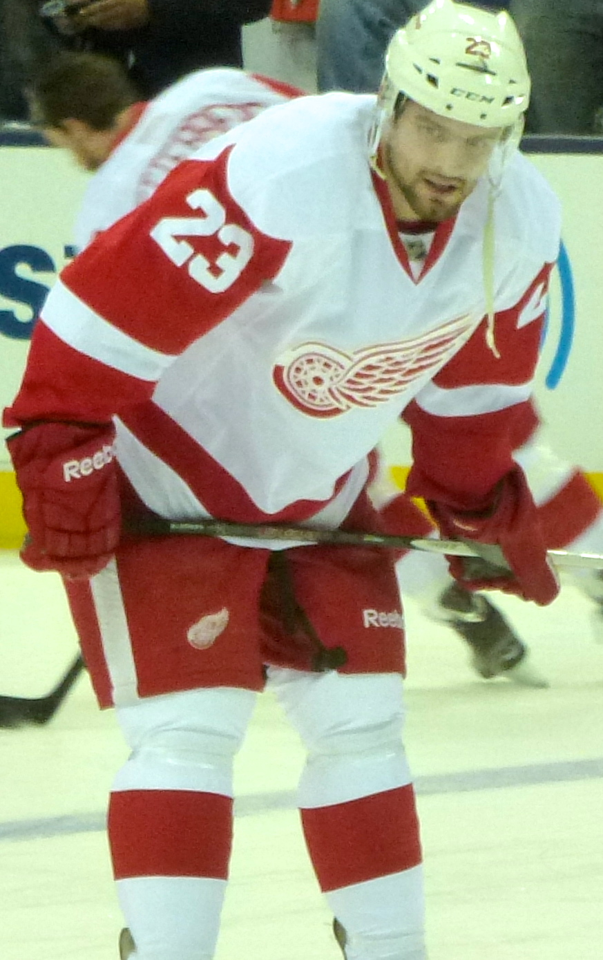 Brian Lashoff in warmups before an NHL regular season game against the Columbus Blue Jackets at Nationwide Arena. This was Lashoff's first NHL game.